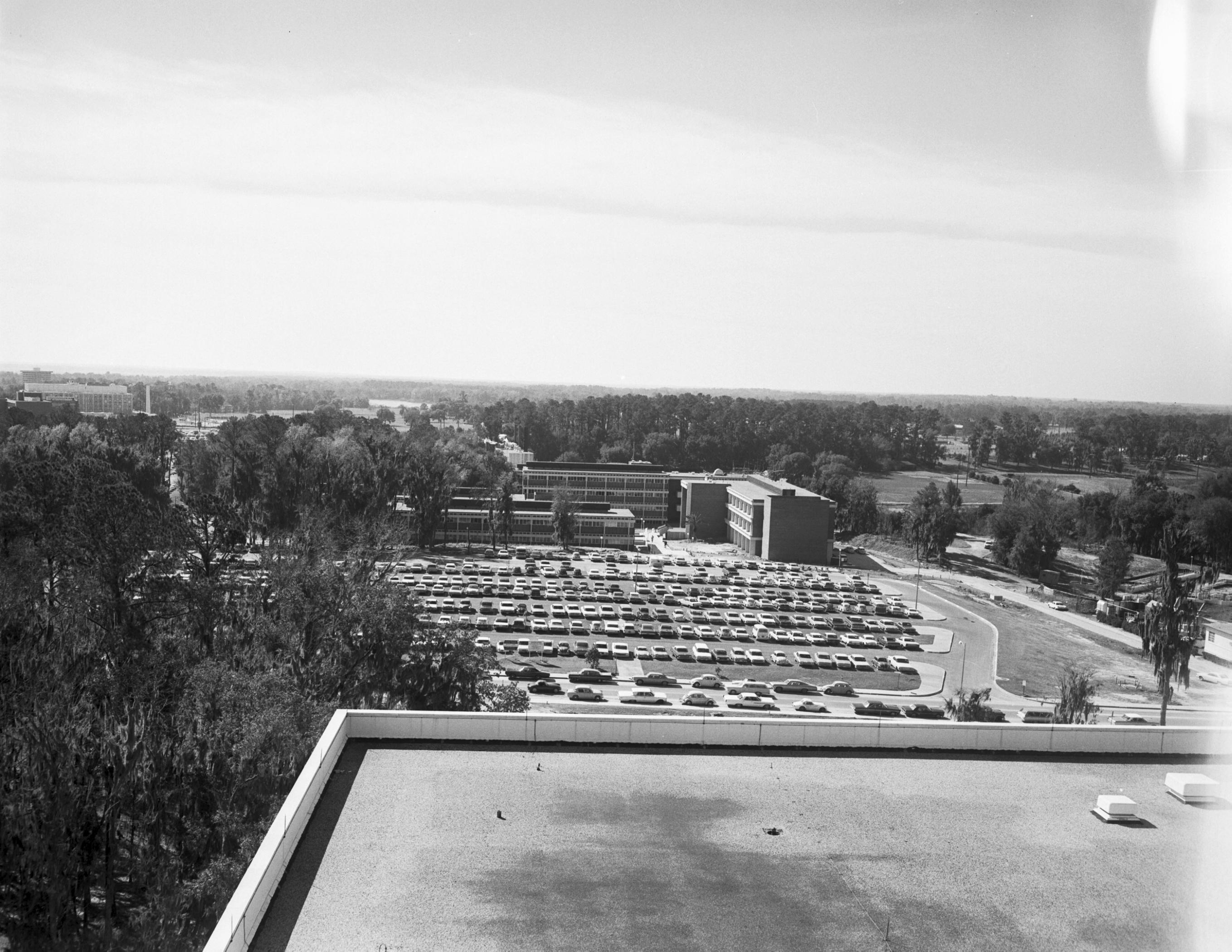 A historic photo of the University of Florida College of Engineering